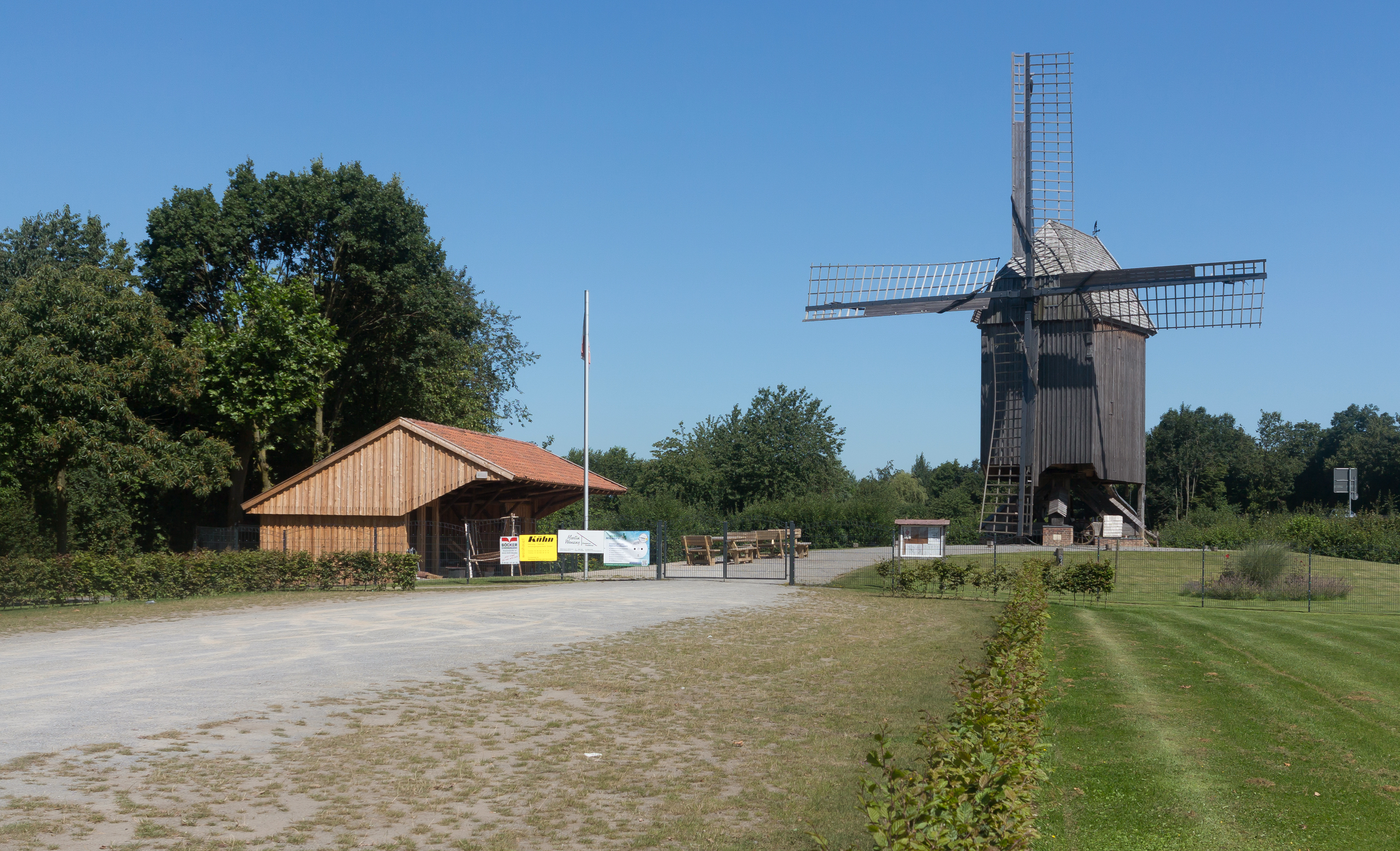 Weseke, windmill: die Bockwindmühle